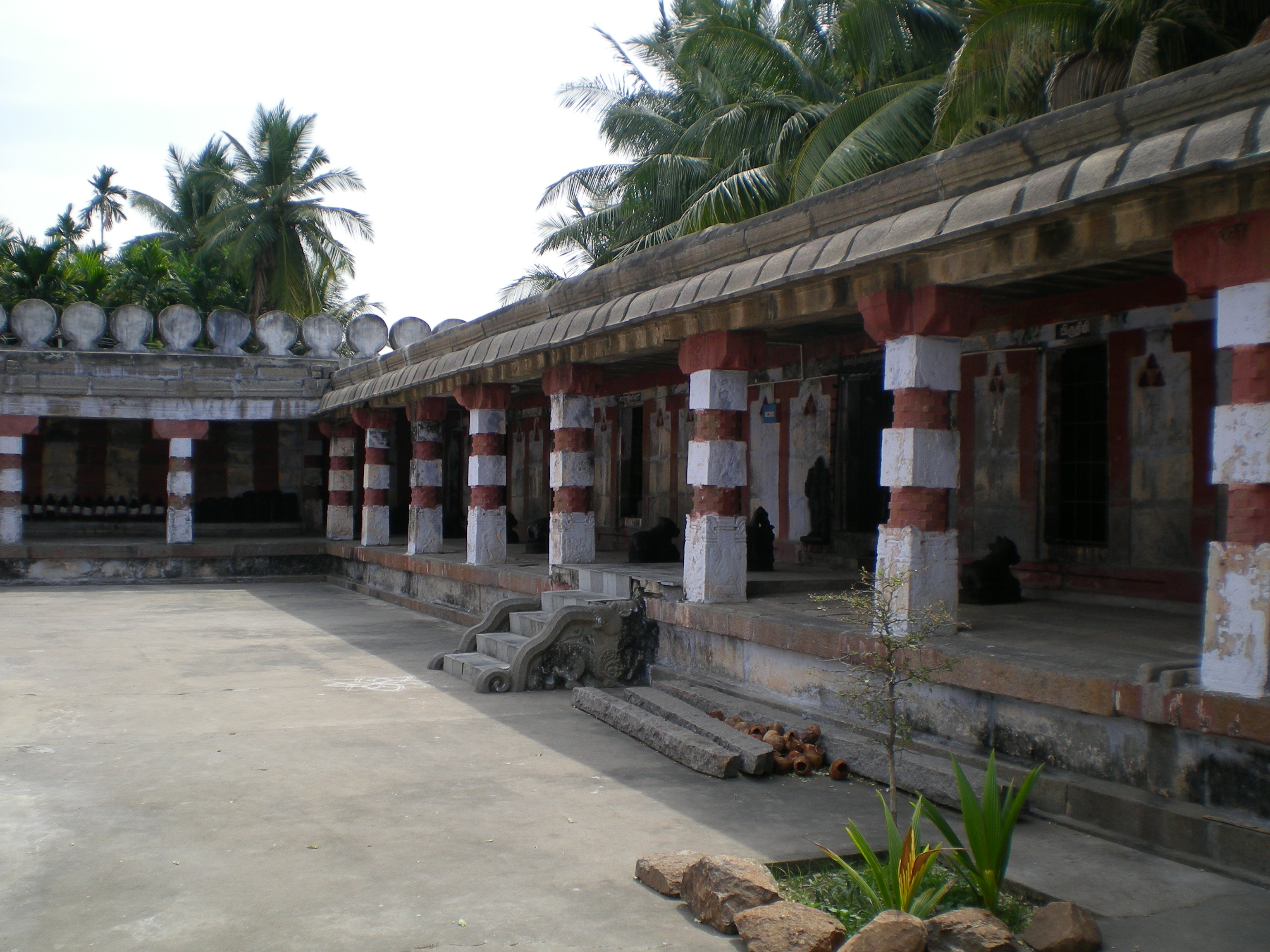 Inside Sri Sambamoortheeswara Temple Yethapur